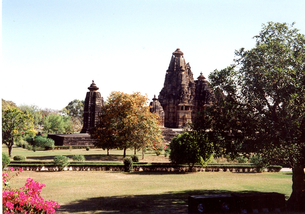 Vishvanath Temple seen from the park with the temples in Khajuraho, India